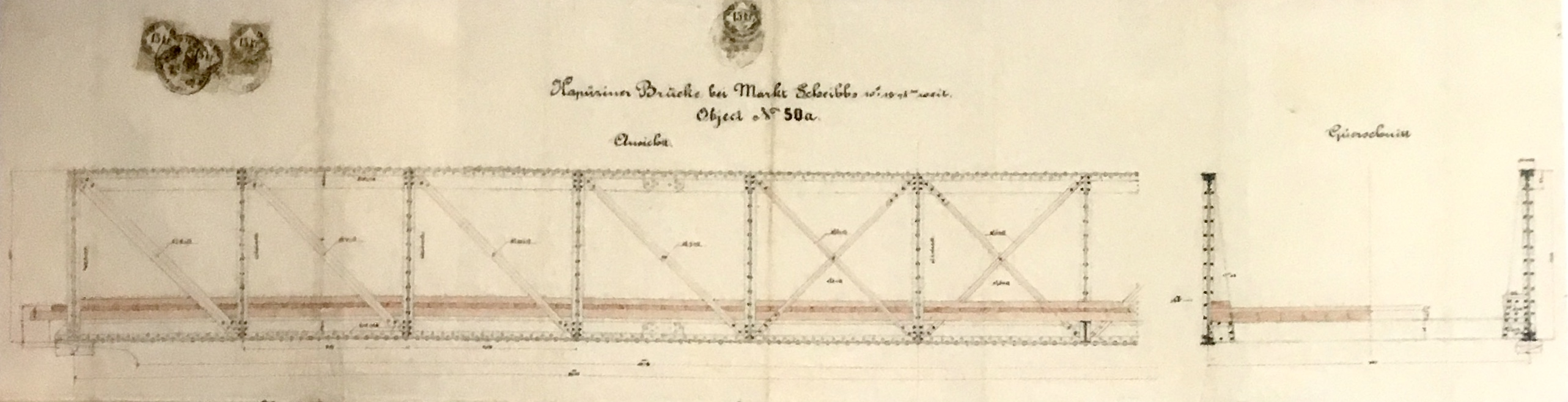 Römerbrücke Ersatzbrücke